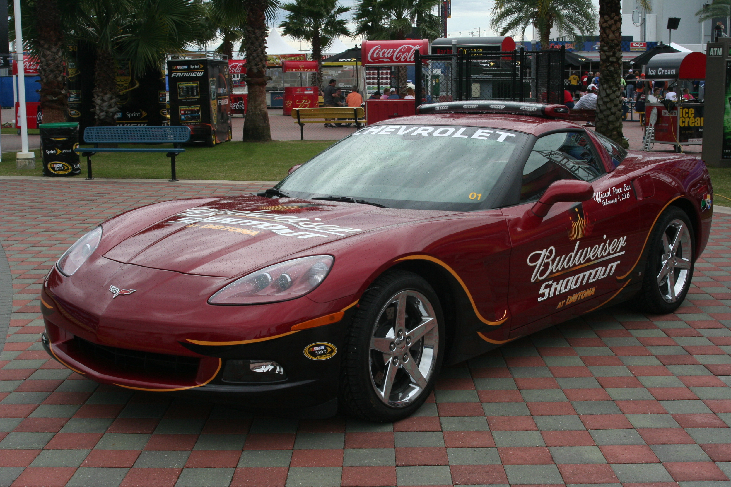 Shot by "The Daredevil" at Daytona during Speedweeks 2008